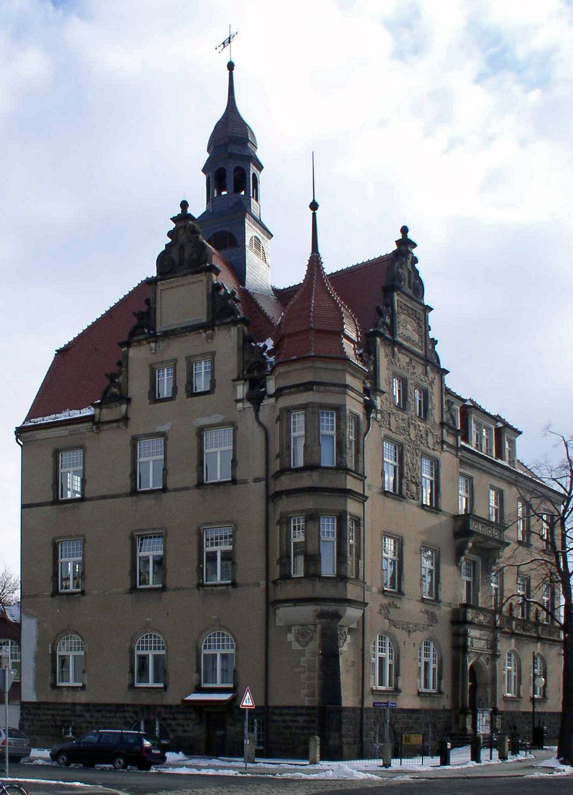 Townhall of Dresden-Leuben, Germany in March 2006